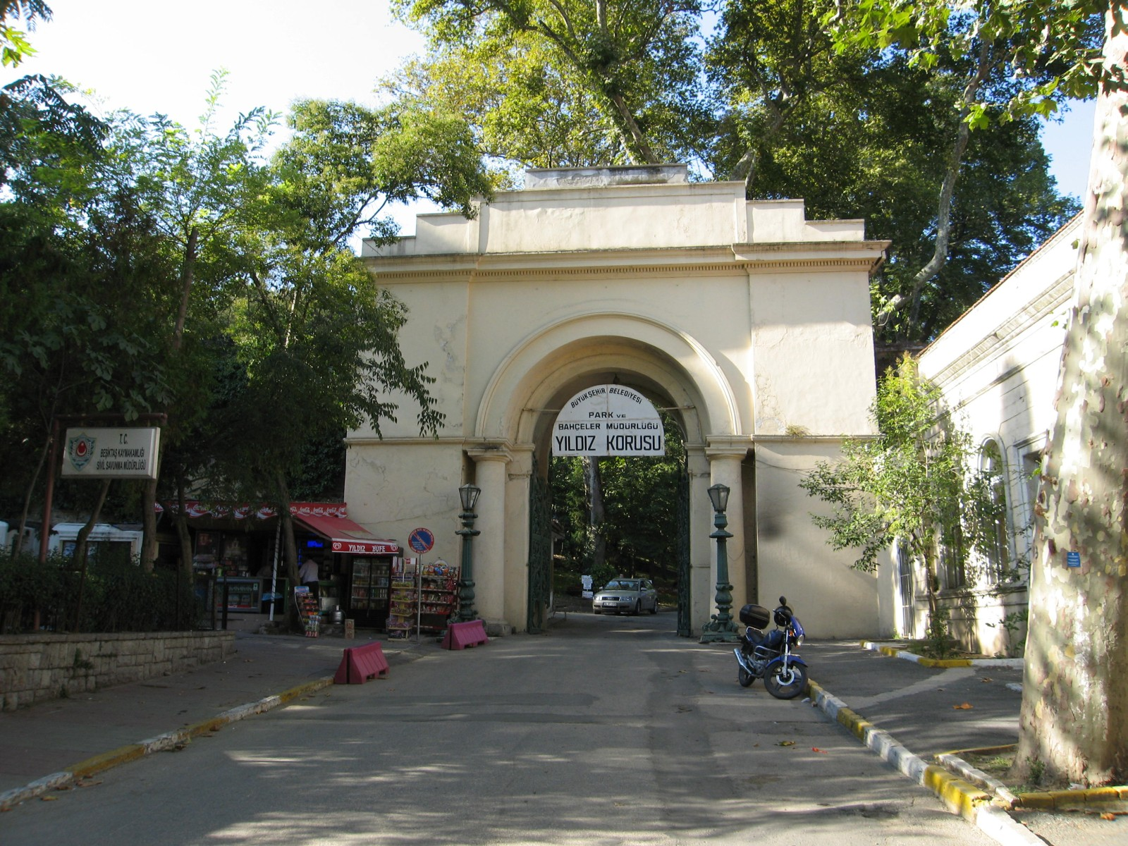 Main entrance gate of Yıldız Park in Istanbul, Turkey.